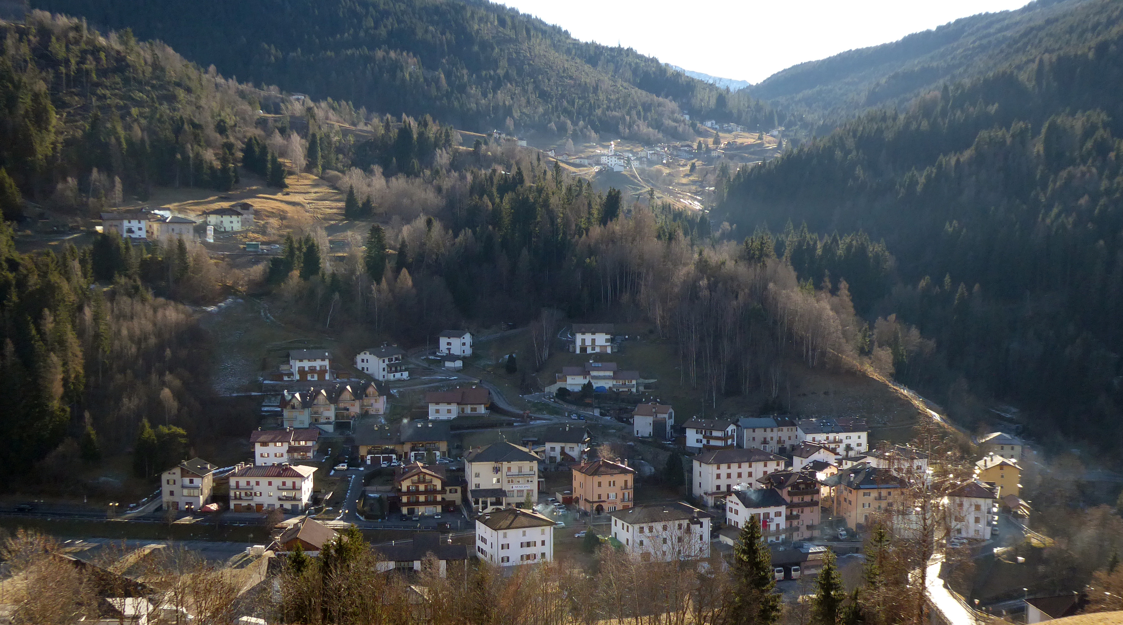 Centrale as seen from Bedollo (Bedollo, Trentino)